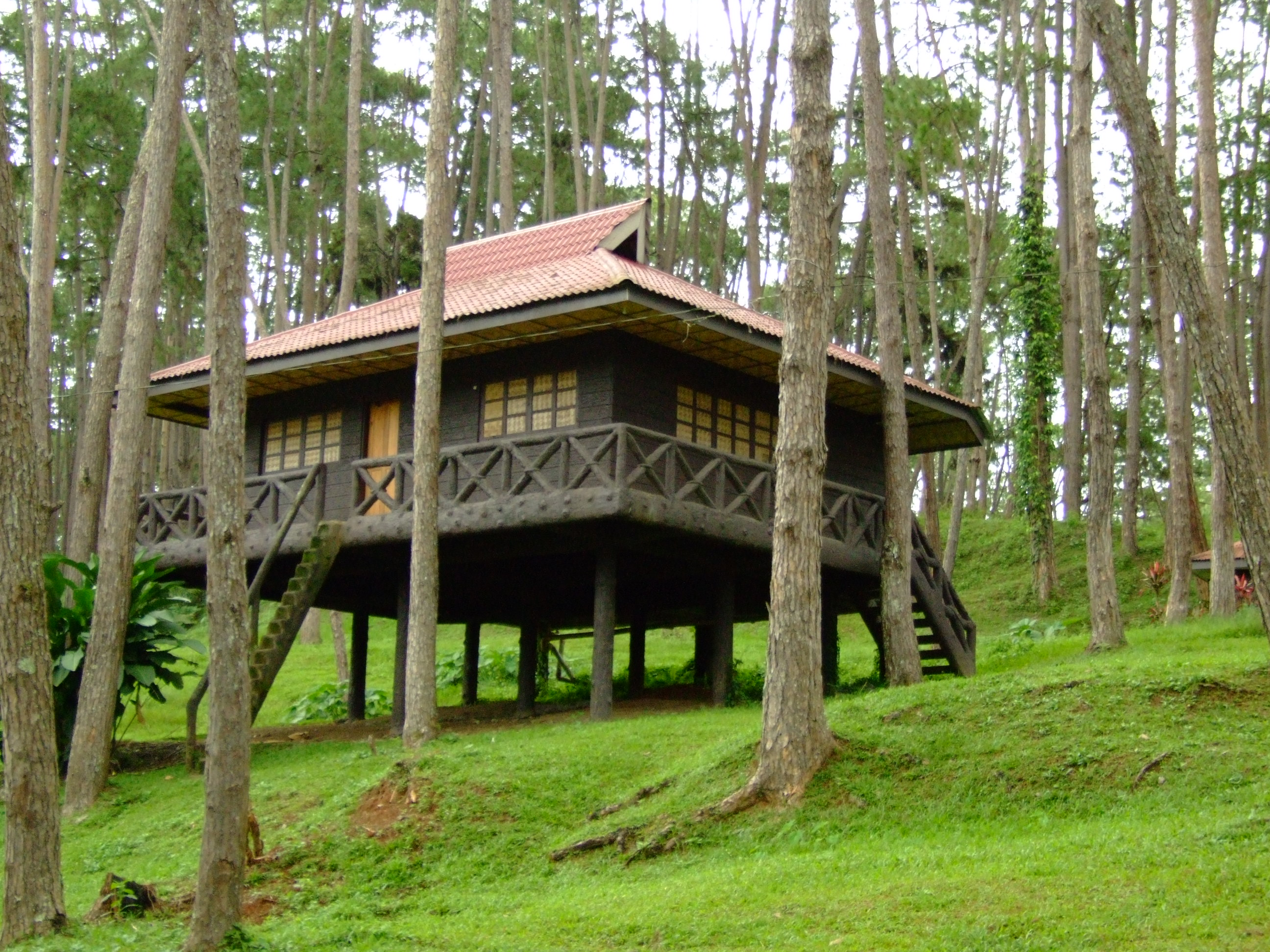 One of the "tulugan" houses in the Kaamulan Park, Capitol Compound, Malaybalay City